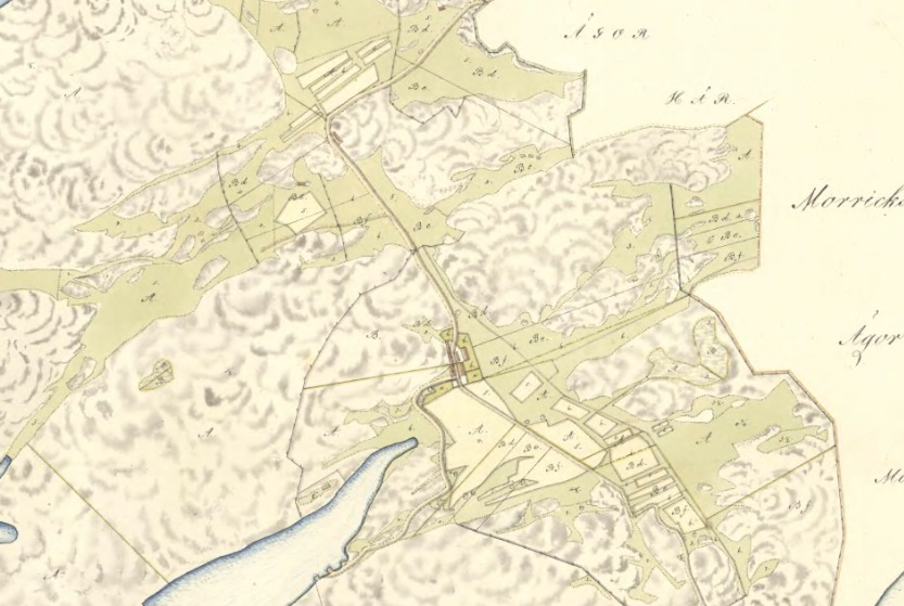 Map of Stockevik, Tjorn, Sweden